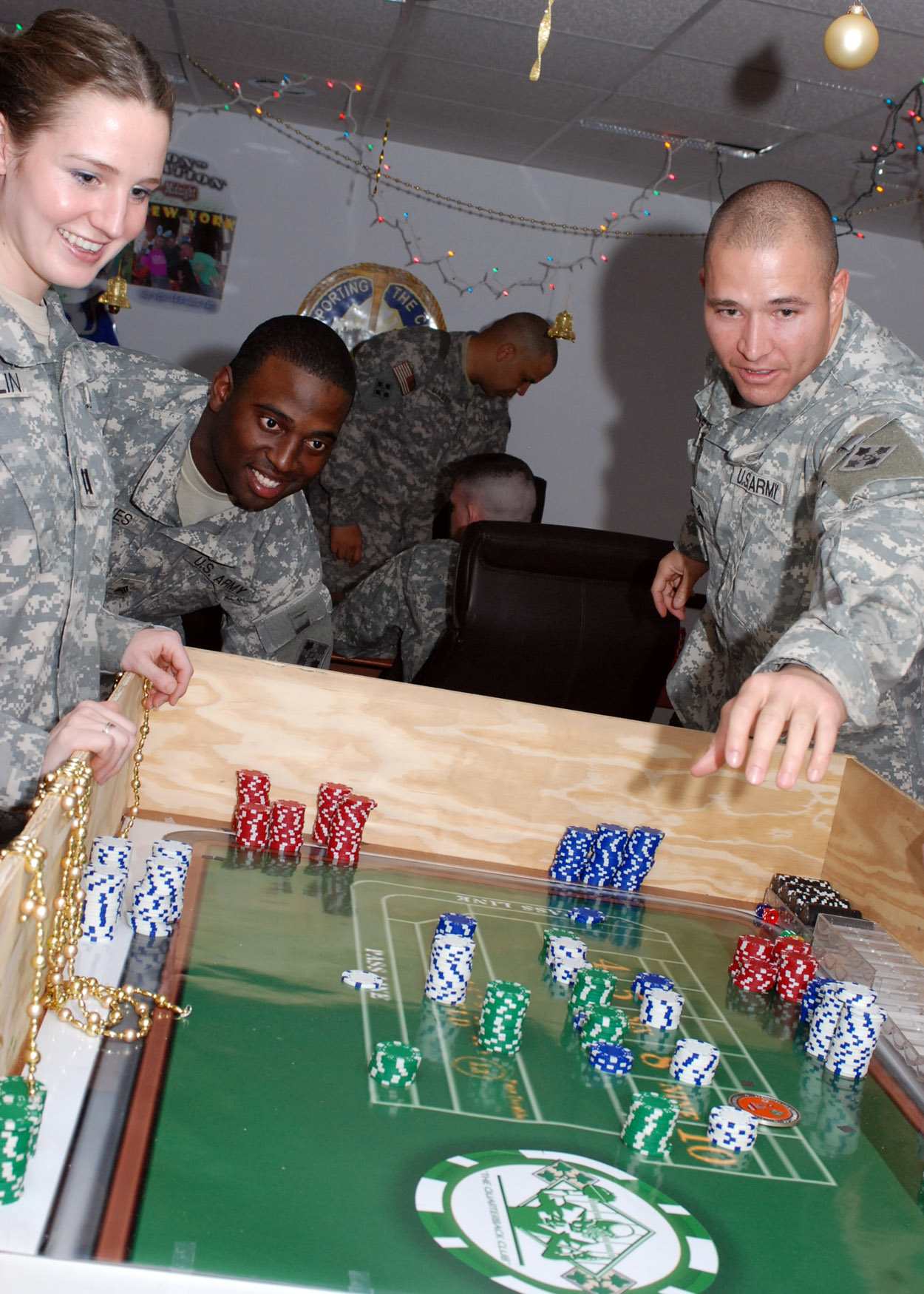 Sgt. Christopher Mitchell, a McGregor, Texas, native, who serves in the Ironhorse Visitors Bureau, 4th Infantry Division, Multi-National Division – Baghdad, throws some dice at the craps table while Sgt. Michael Nieves, a Fayetteville, N.C., native, who serves with Company C, Division Special Troops Battalion, 4th Inf. Div., MND-B, and Capt. Kate Caughlin, a native of Bethesda, Md., who also serves with the IVB, watch during “Across the Nation” New Year’s celebration inside the stadium in front of division headquarters on Camp Liberty, Dec. 31. The Quarterback Club organized the party to help Soldiers celebrate New Year’s by bringing a Vegas-like casino setting, a Texas house party setting and a New York ‘80’s dance party theme to Baghdad.